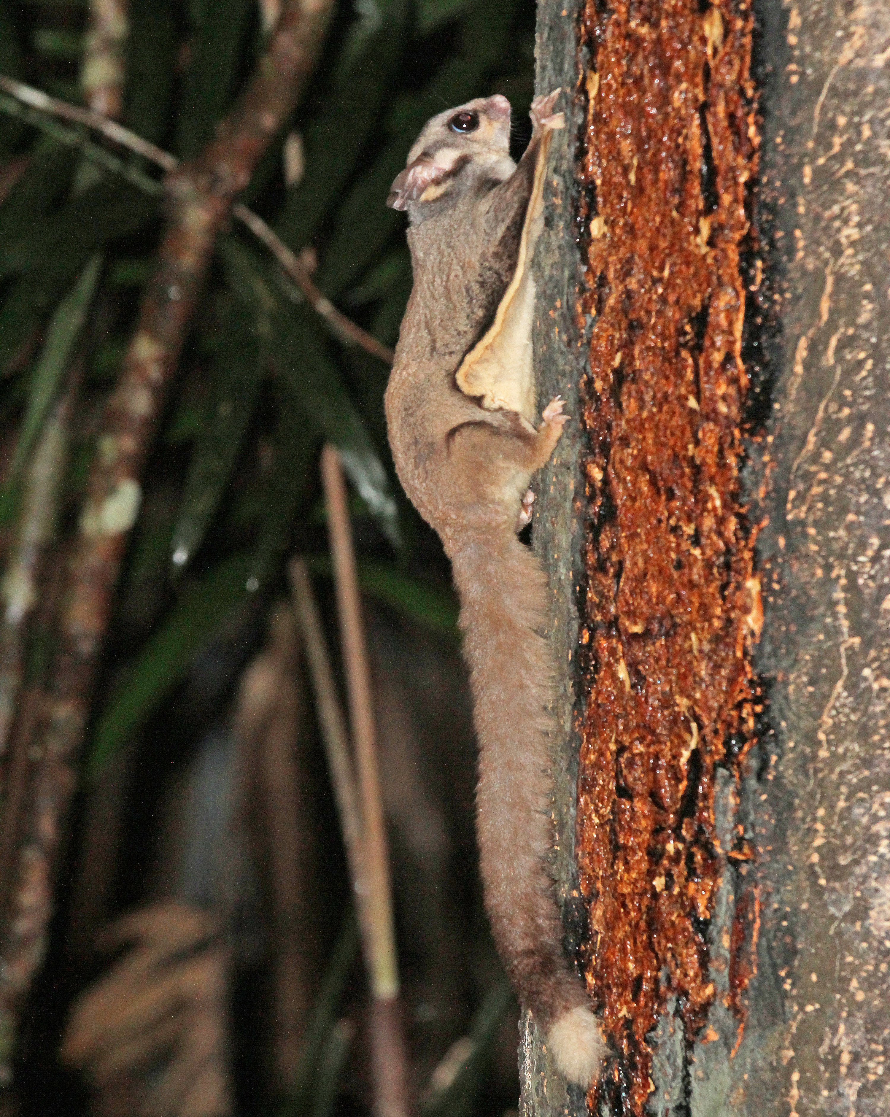 photo of Sugar Glider